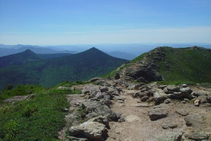 View of Franconia Ridge Trail looking south.